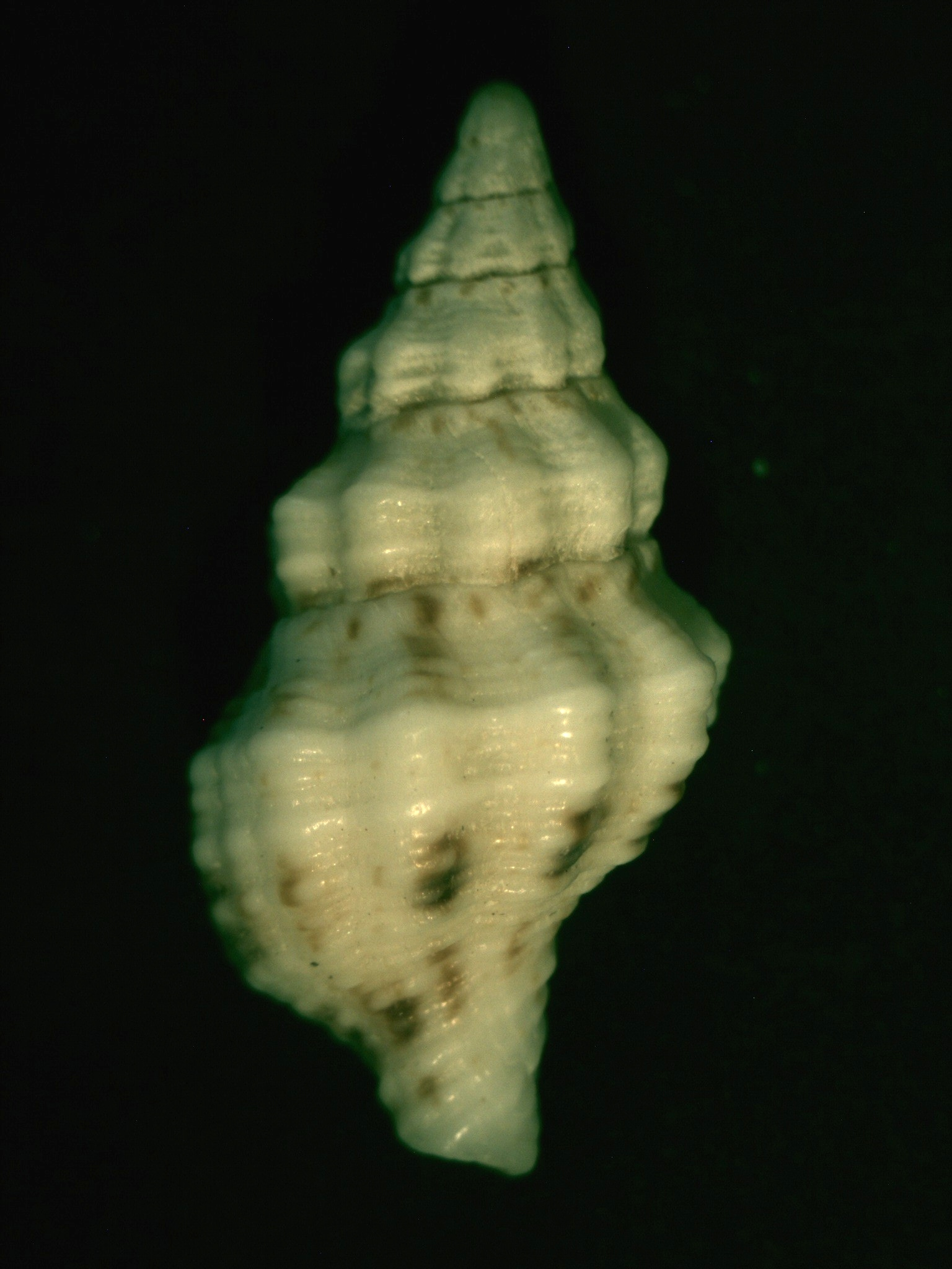 Microcolus dunkeri (Jonas, 1846), a dove snail from the family Fasciolariidae; South Australia